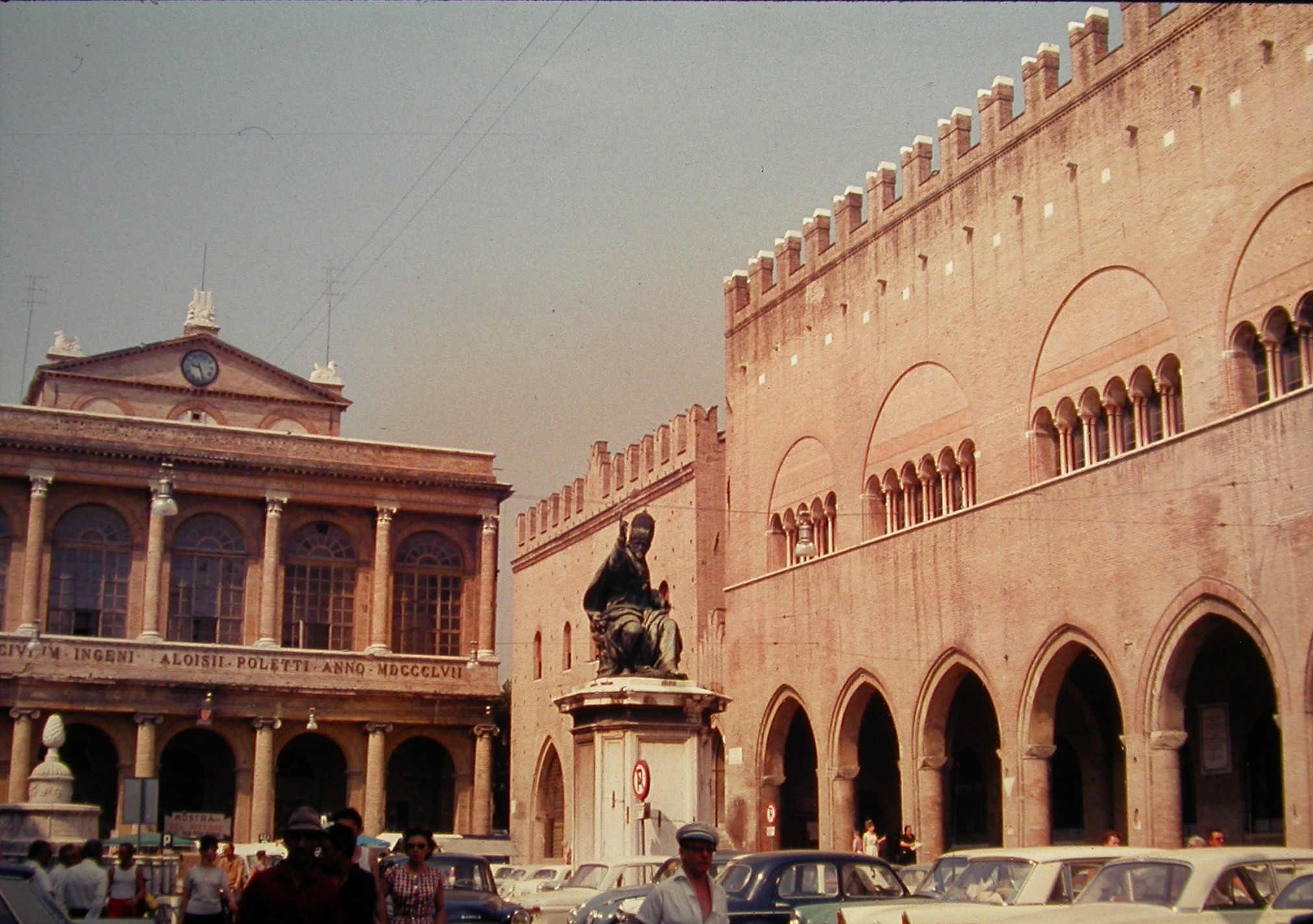 1963, Piazza Cavour was still a parking...